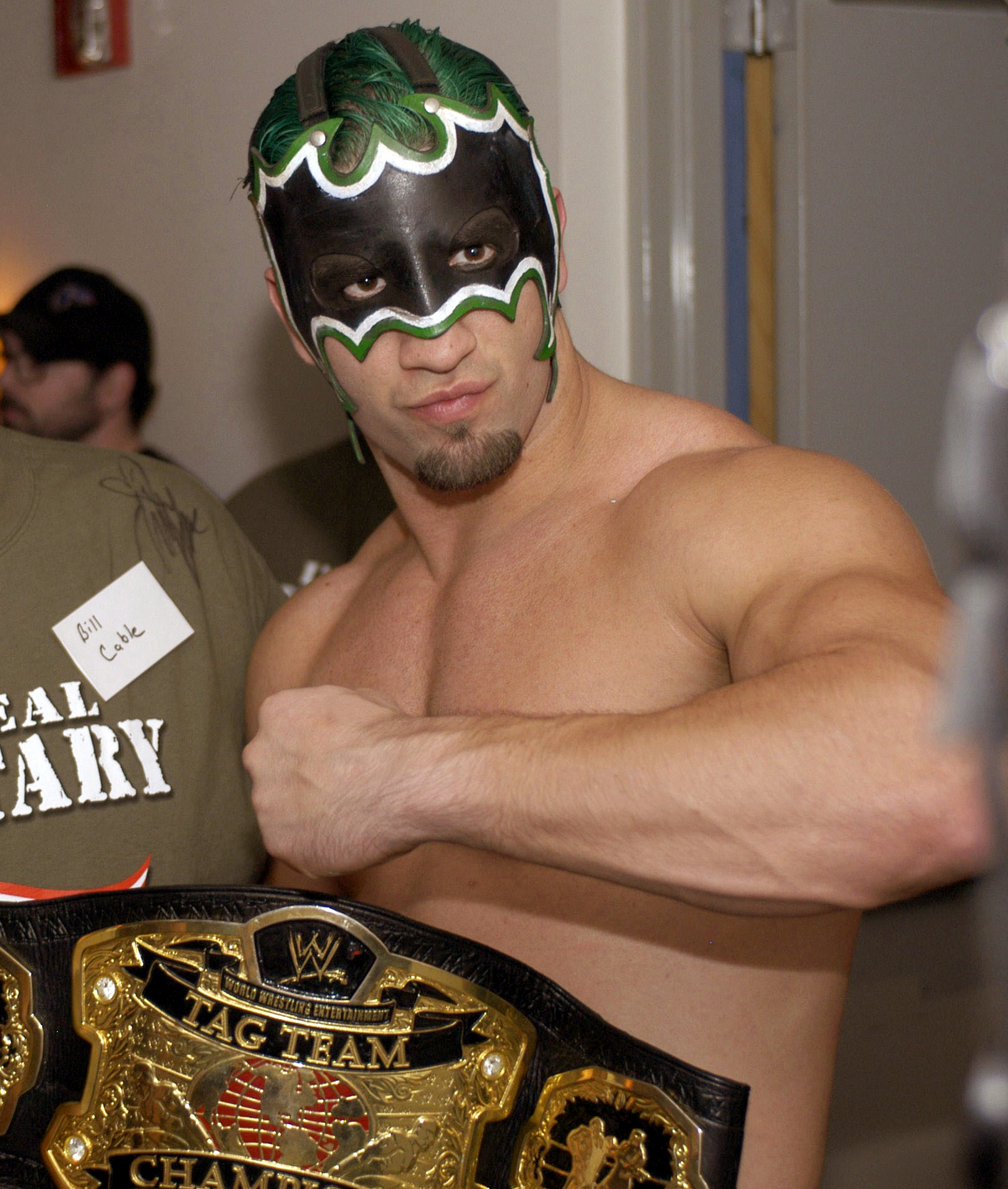 Army Spc. William Cable (not seen in crop), with the Pennsylvania National Guard, poses for photos with World Wrestling Entertainment's The Hurricane. Cable was attending a reception for troops from Walter Reed Army Medical Center before the WWE's SummerSlam event at the MCI Center in downtown Washington.